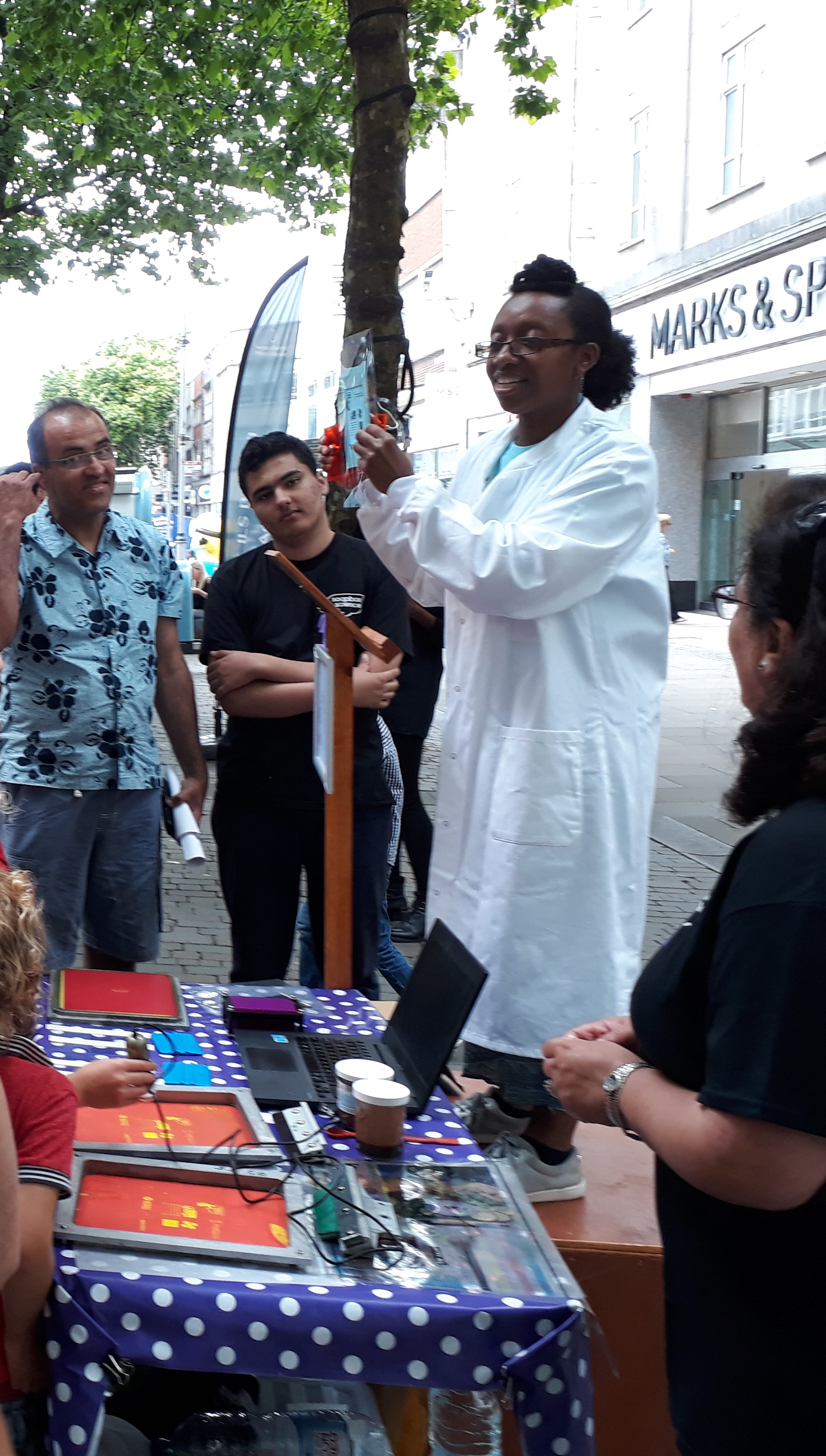 Picture of Dr Youmna Mouhamad performing street science in Swansea city centre